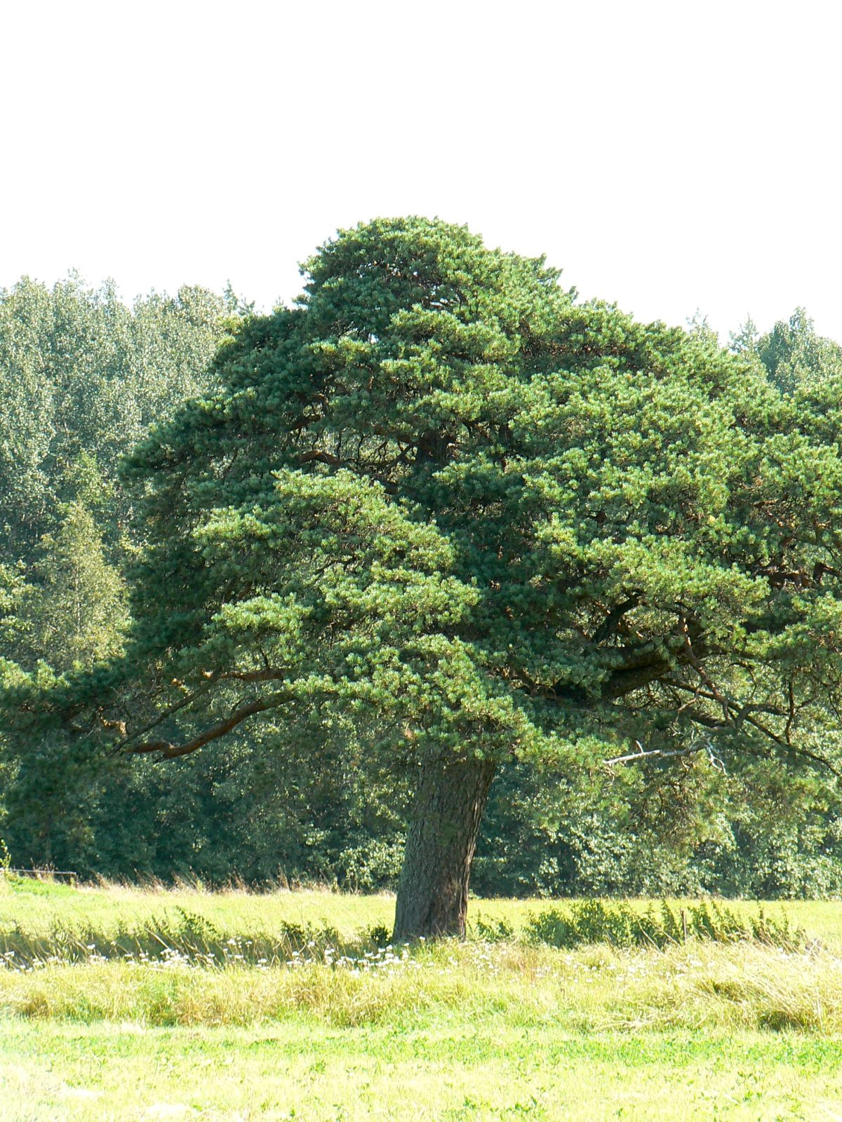 The Keava kahar pine in Estonia